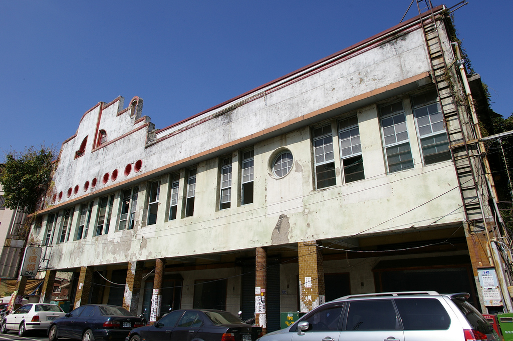 Changhua Railway Hospital中文（中国大陆）: 彰化铁路医院